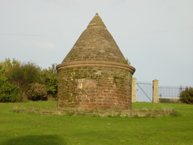 Prince Rupert's Tower, Everton FC's Symbol. This is the famous Everton roundhouse featured on the EFC badge, sometimes known as Prince Rupert's Tower. At the end of the 1937/38 season, club secretary Theo Kelly, who later became The Toffees first post-war manager, wanted to design a club necktie and although it was agreed that the colour should be blue, Kelly was given the task of designing a crest to be featured on the tie. Kelly considered the matter for four months until deciding on a reproduction of the tower which stands in the heart of the Everton district. The roundhouse has been inextricably linked with the Everton area since its construction in 1787, originally used as a bridewell to incarcerate criminals, it still stands today on Everton Brow in Netherfield Road. The roundhouse was accompanied by two laurel wreaths on either side and, according to the College of Heraldry and Arms in London, chosen as they were the signs of winners in classical times. The crest was accompanied by the club motto, "Nil Satis, Nisi Optimum", which means "Only the best is good enough". The ties were first worn by Kelly and the Everton chairman, Mr. E. Green on the first day of the 1938/39 season.